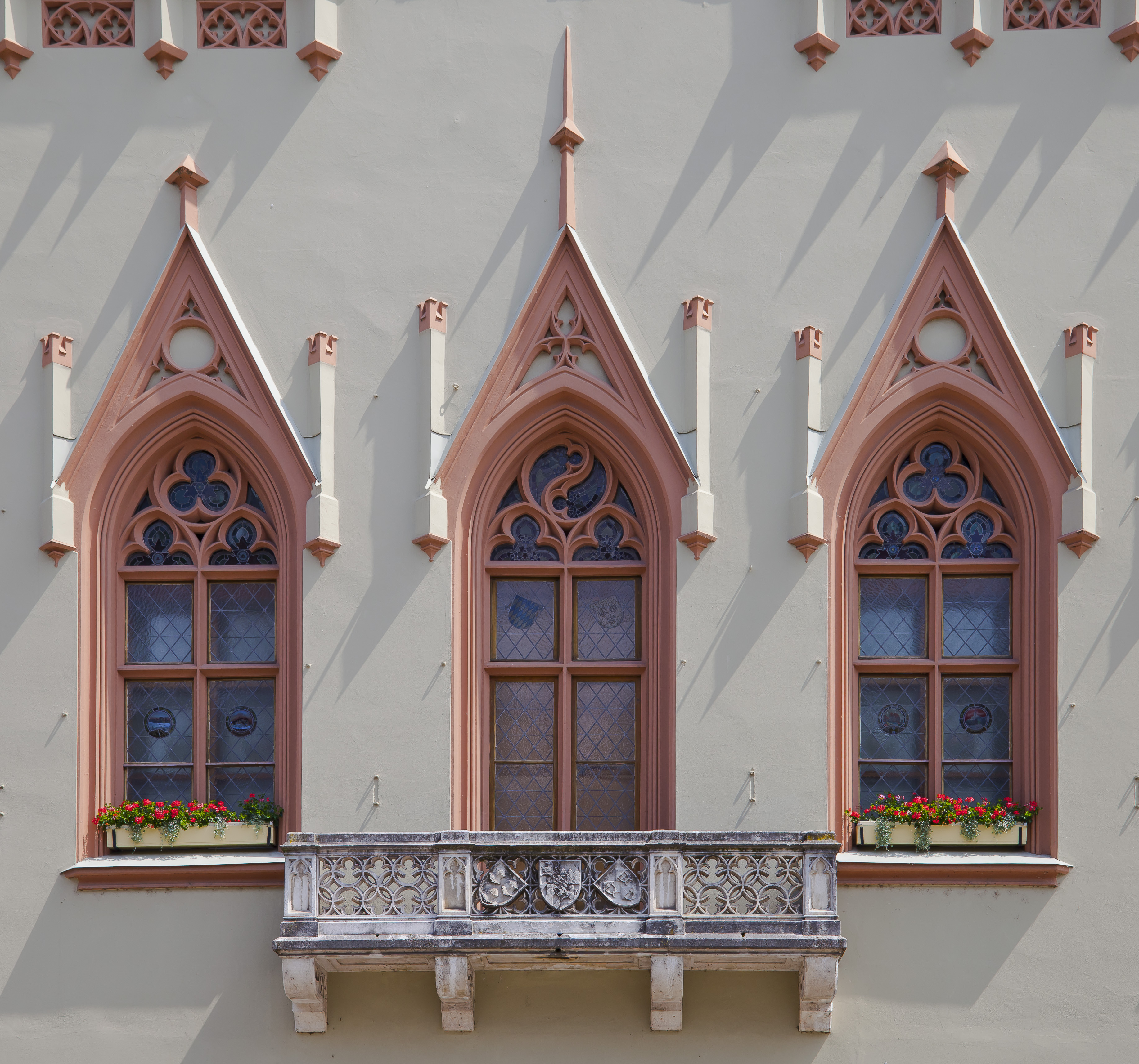 Town Hall, Altstadt St., Landshut, Germany